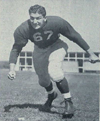 Photograph of Merv Pregulman